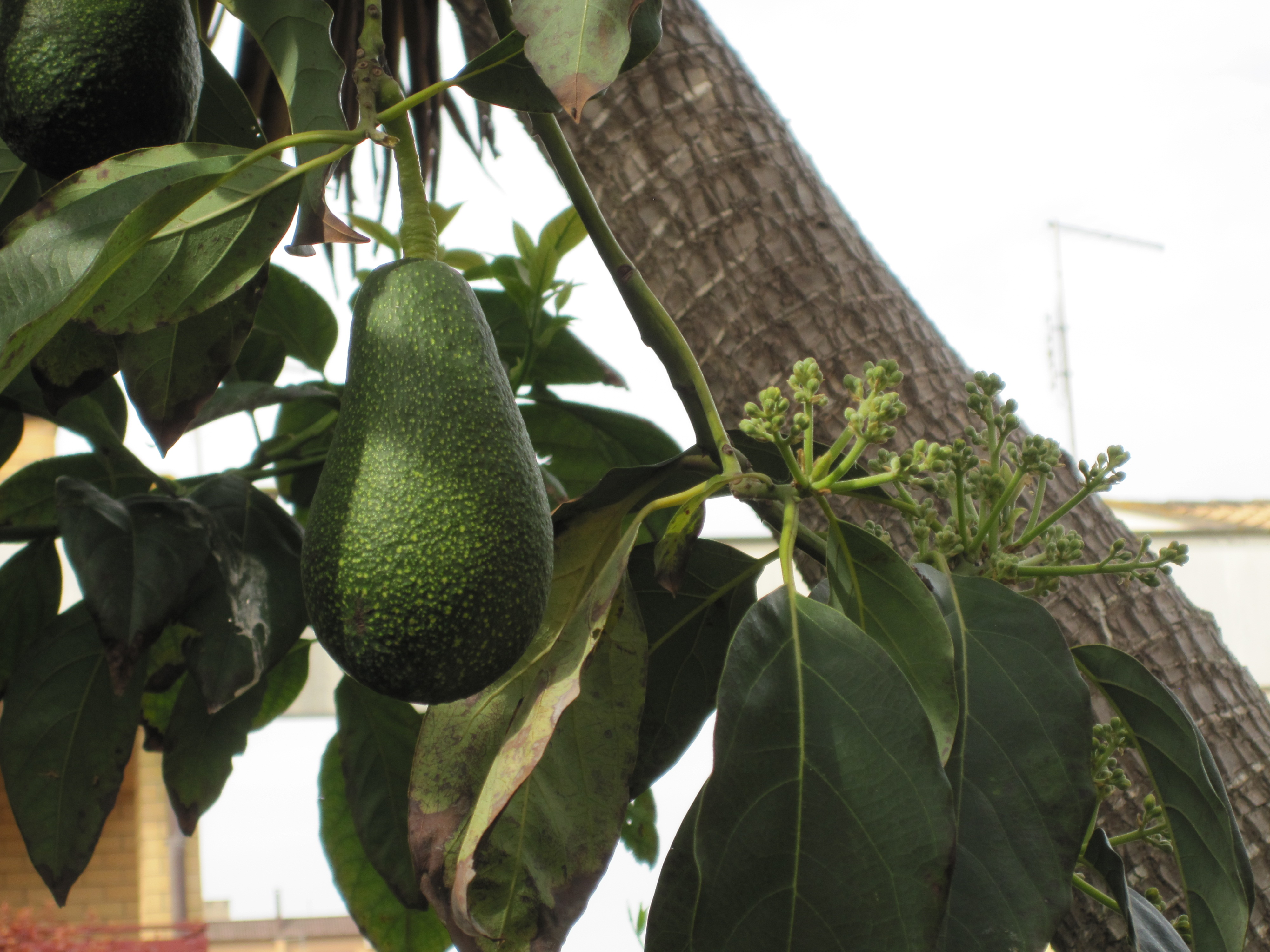 Avocado (Persea americana) - flowers and fruits on tree in my garden in Rome